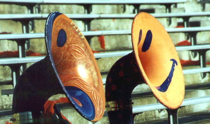 University of Virginia: Colorfully painted tubas used by the Virginia Pep Band.